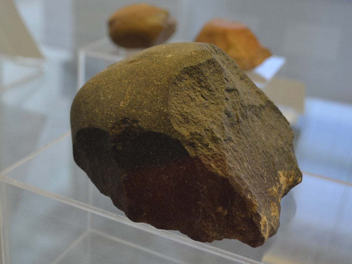 Paleolithic tools